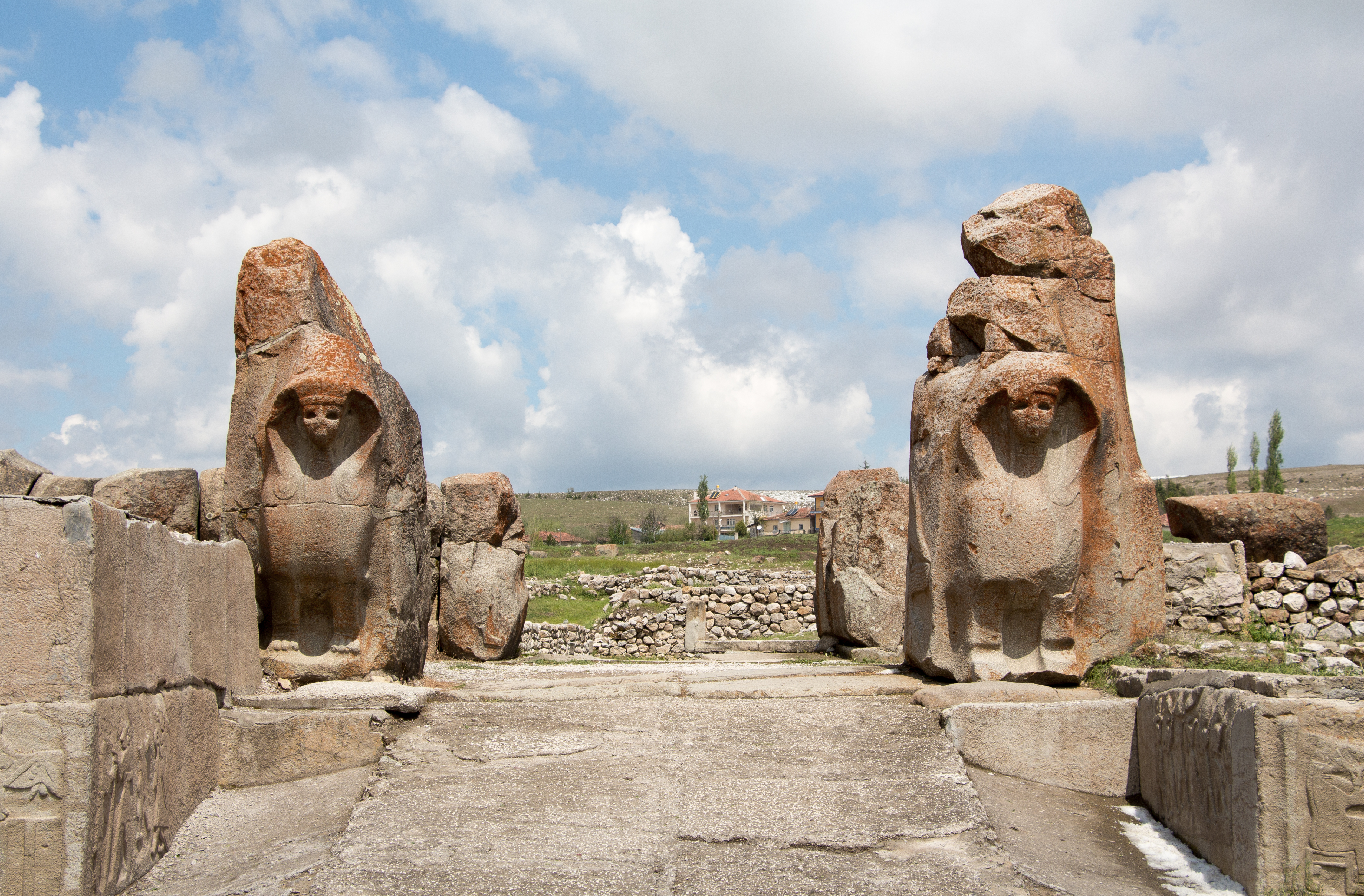 Sphinx Gate, Alaca Höyük, Turkey